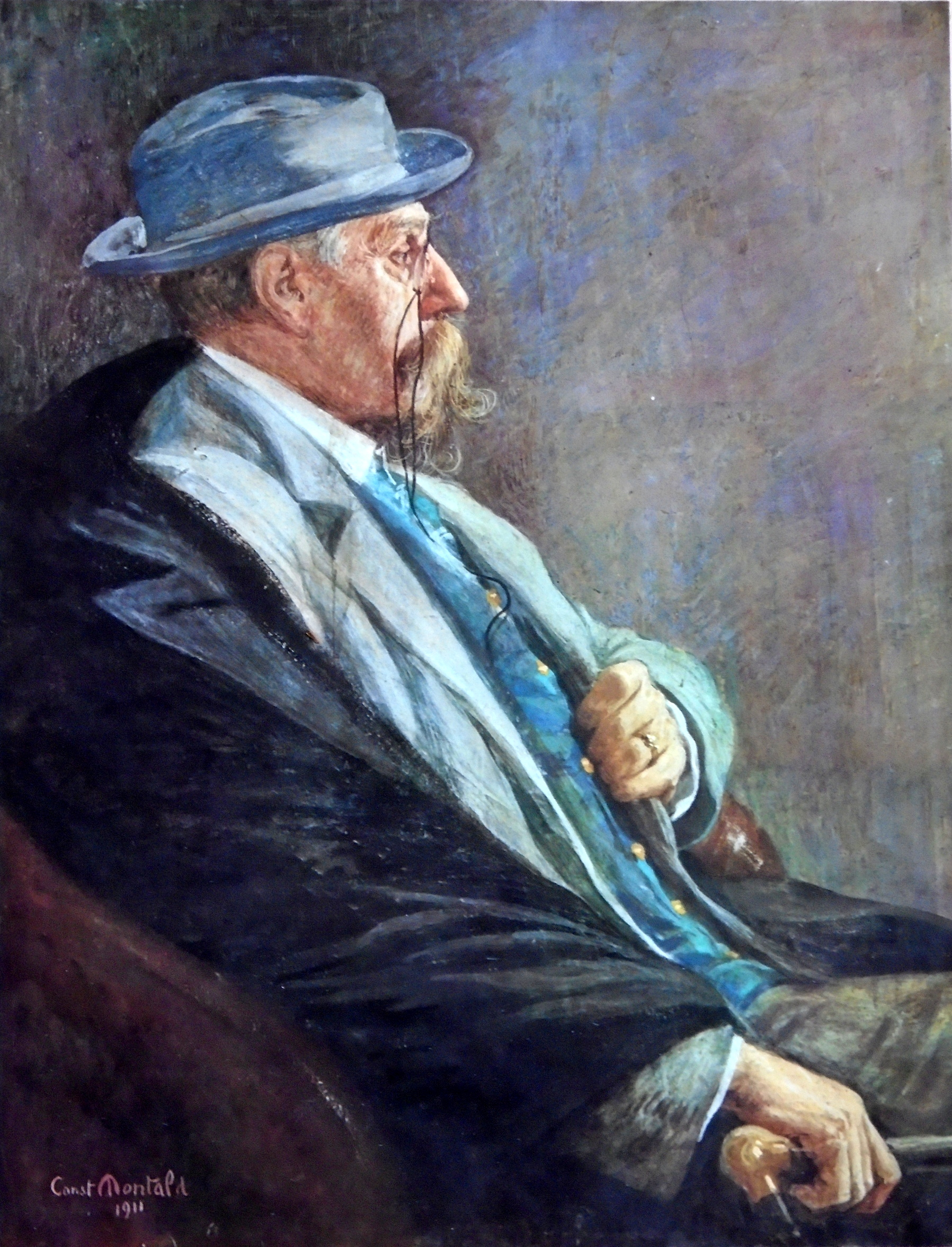 Picture EV